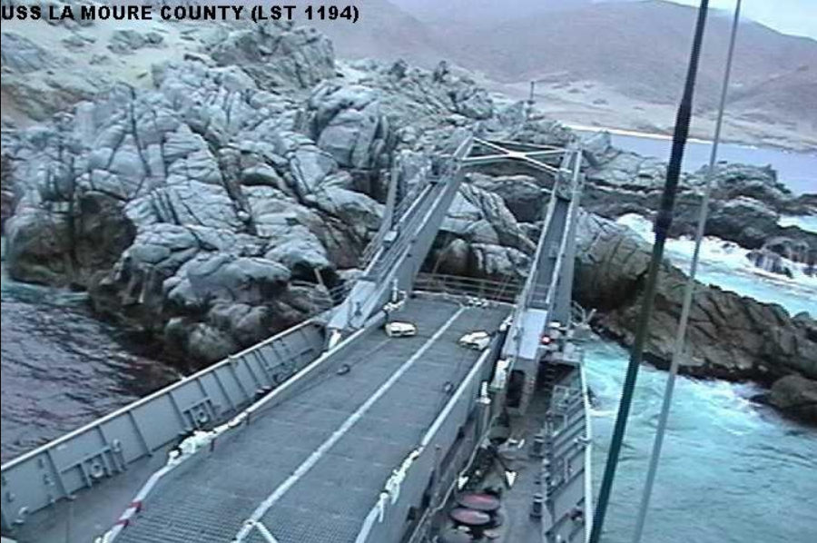 View of the forward deck and bow of the United States Navy tank landing ship USS La Moure County (LST-1194) after she was aground in Caleta Cifuncho Bay, Chile, on 12 September 2000.